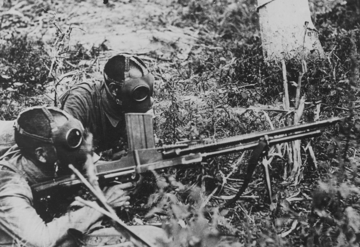 Chinese soldiers wearing gas masks and armed with a Czech ZB vz. 26 light machine gun.